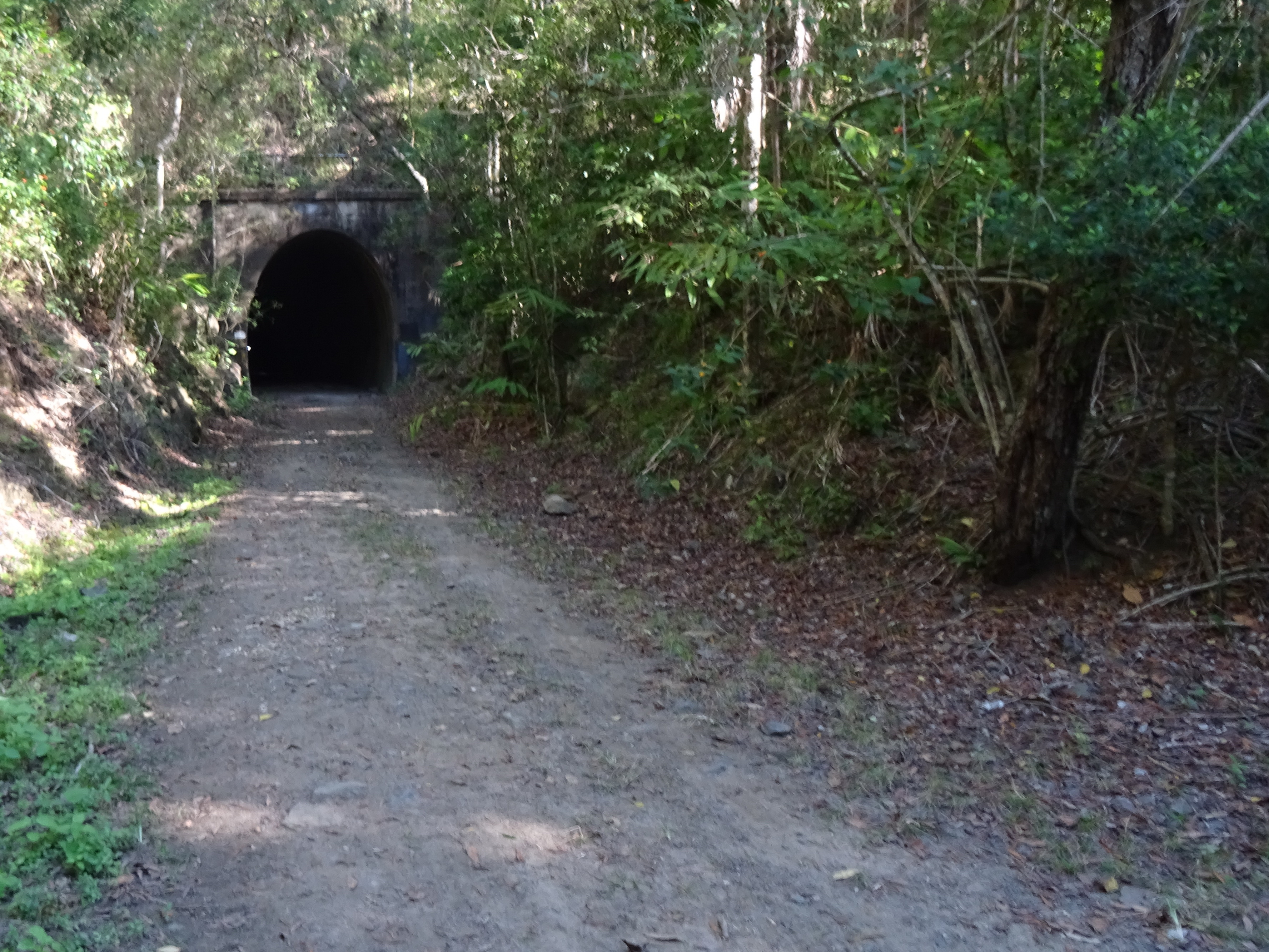 Dularcha NP DSC08021 Qld